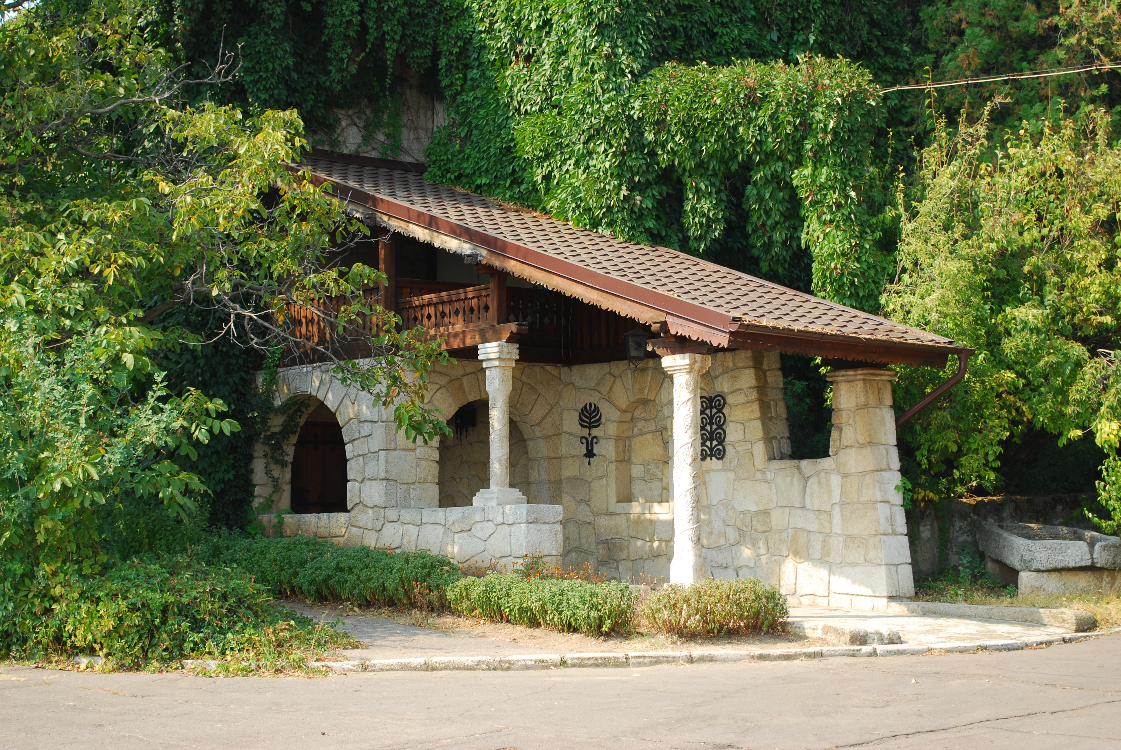 Winemaking research center in Pietroasele, Buzău County, Romania